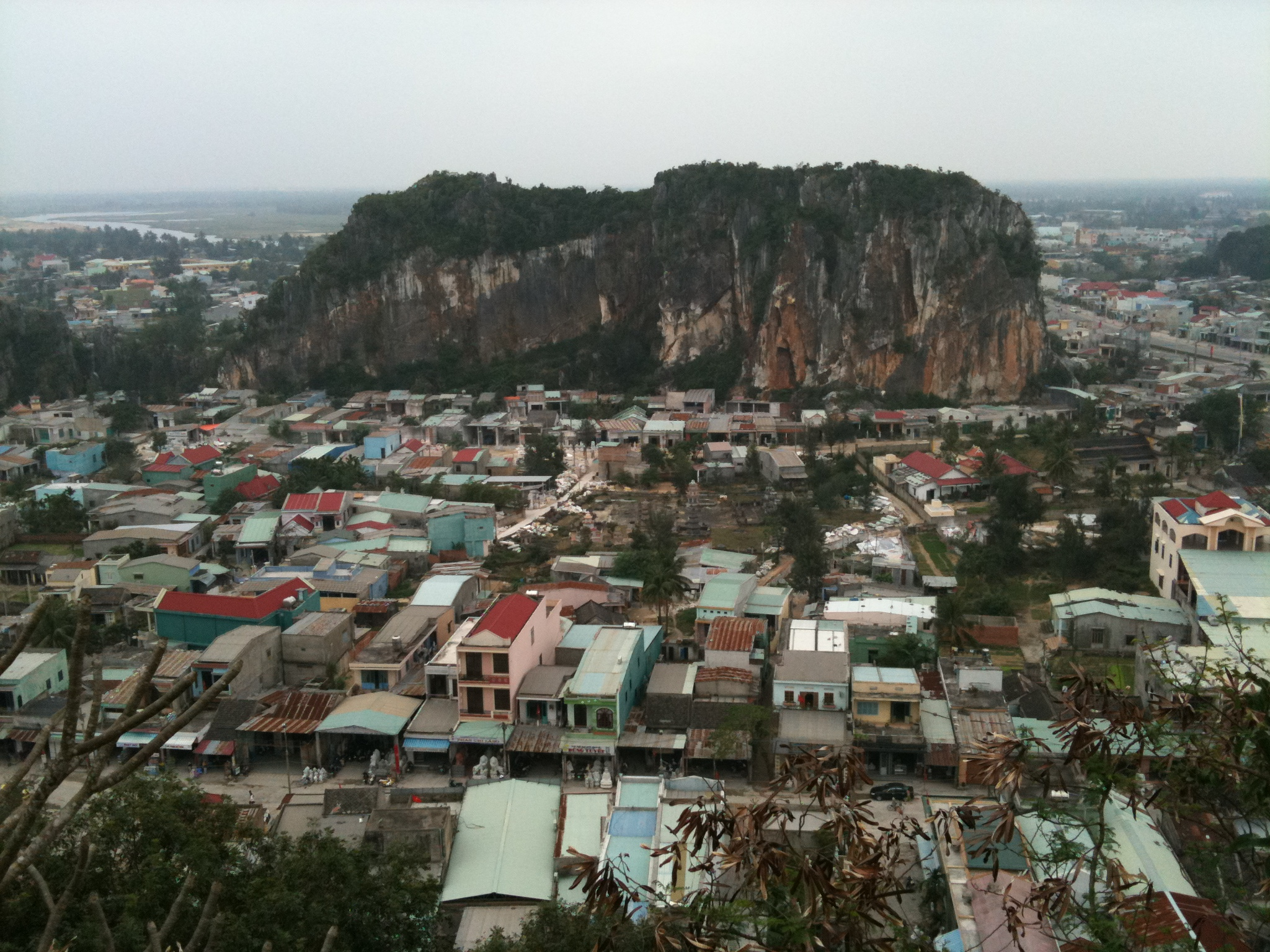 View from atop the Marble Mountains, Ngu Hanh Son District, Da Nang, Vietnam.